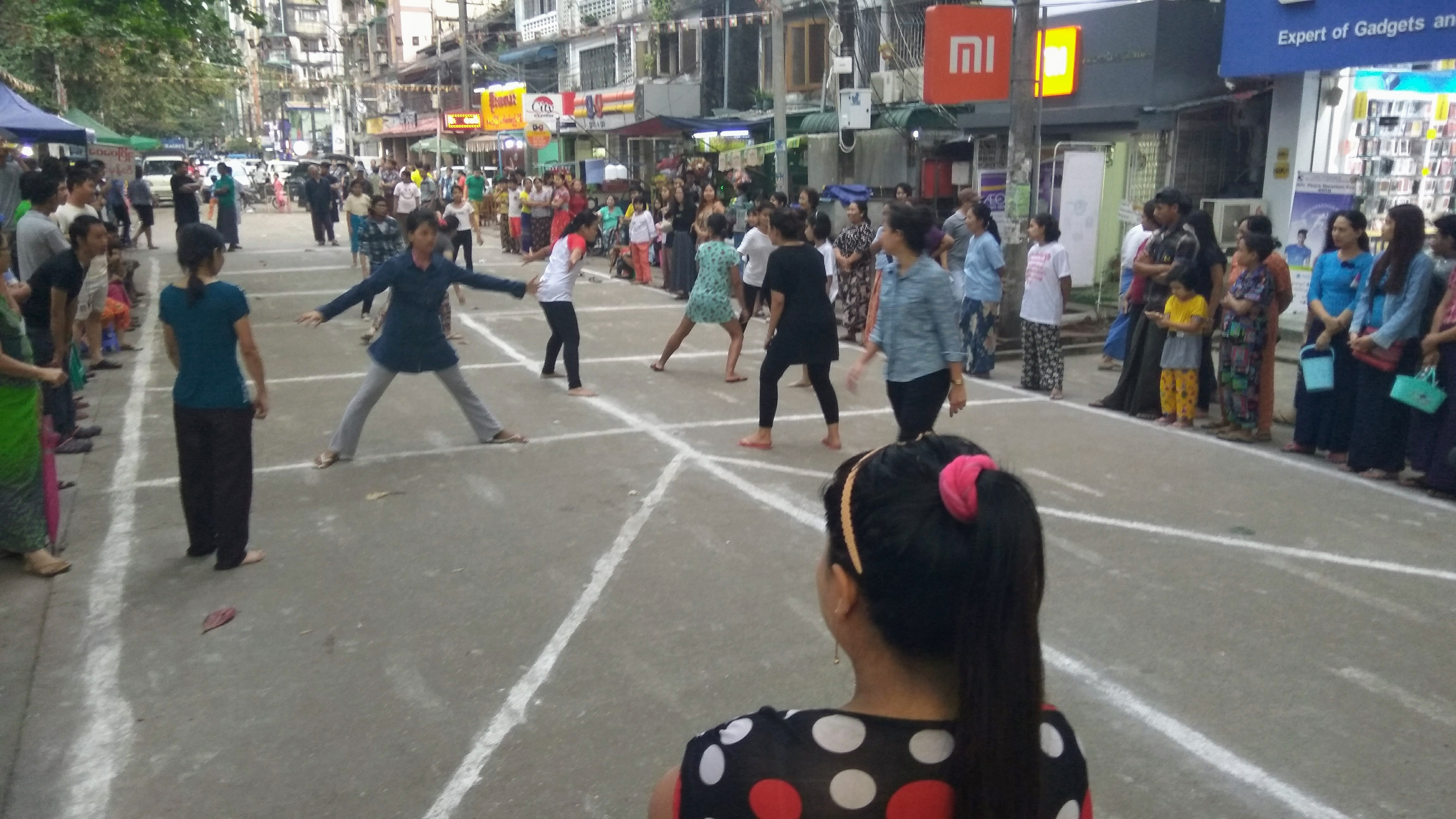 Playing Htoke See Htoe Game on the street at Myanmar Independent Day, Sanchaung Street, Yangon မြန်မာဘာသာ: လွပ်လပ်ရေးနေ့အထိမ်းအမှတ် ထုပ်စည်တိုး ကစားပွဲ၊ စမ်းချောင်းလမ်း၊ ရန်ကုန်